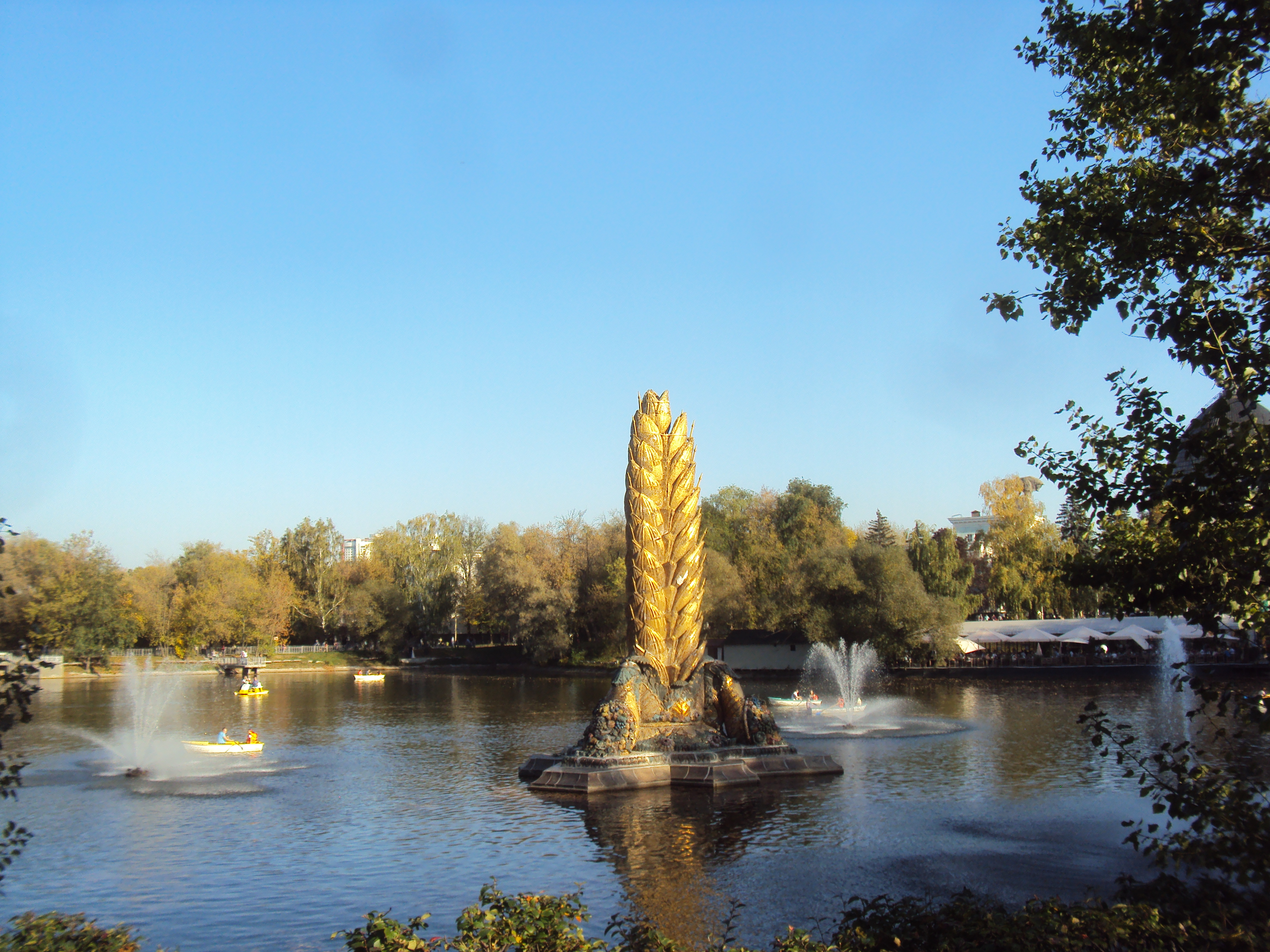 Fountain Golden spike